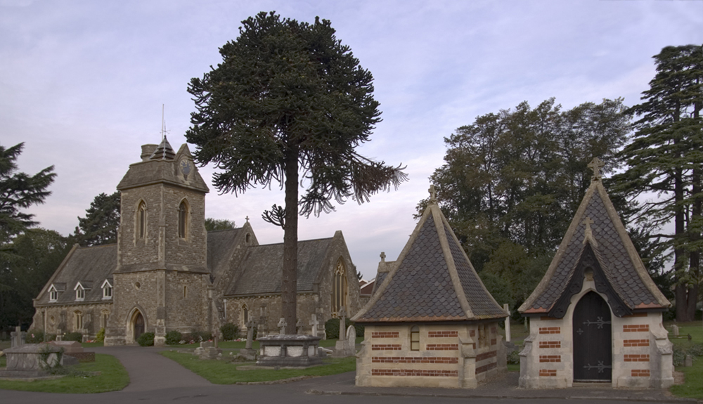 Part of St Jude's cemetery, Englefield Green, Surrey, England. On the left is SS Simon and Jude parish church. On the right is a pair of mausolea built about 1860 for the Fitzroy Somerset family.